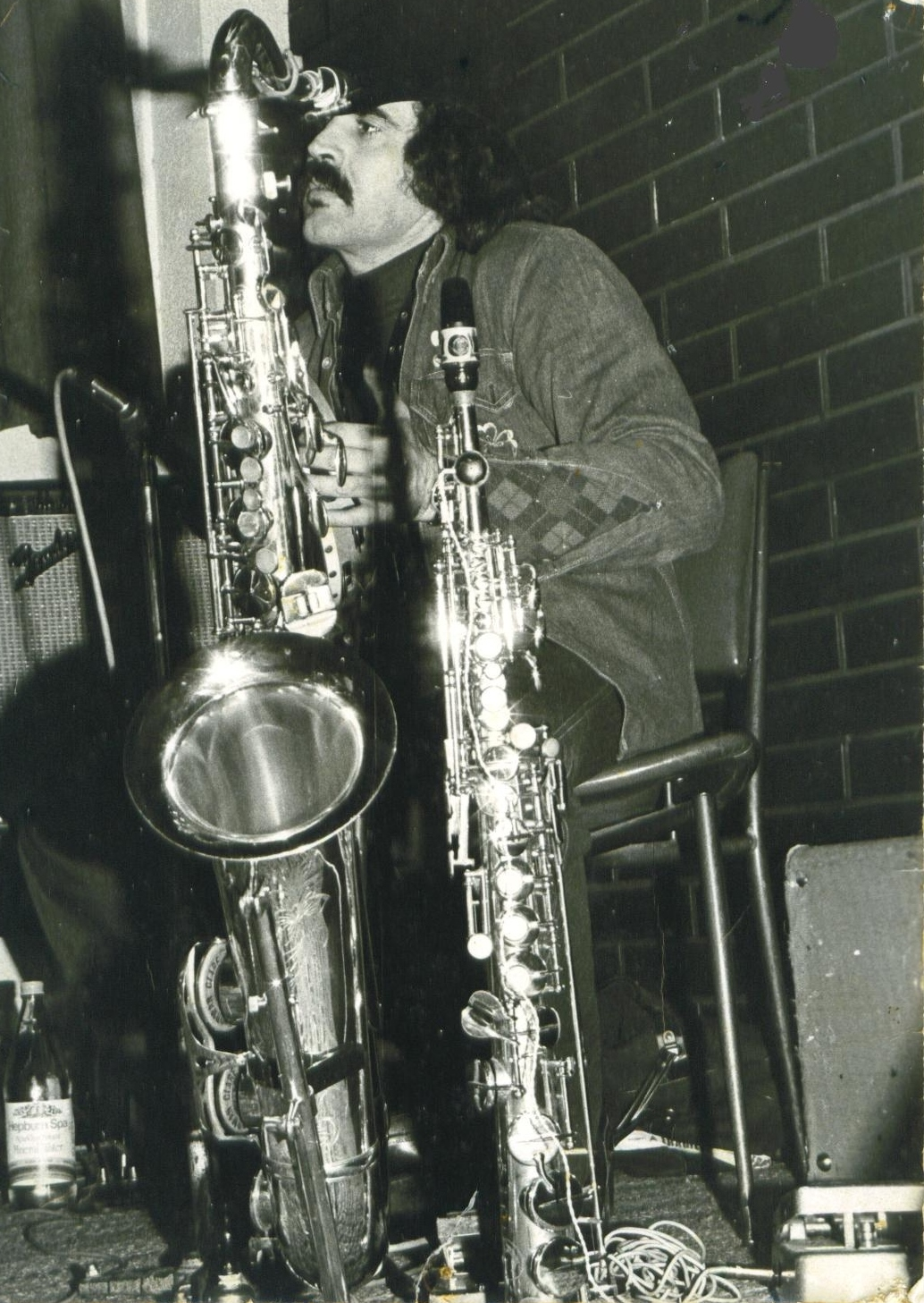 Tenor and soprano saxophones used by Col Loughnan (in background) with Ayers Rock (1974)